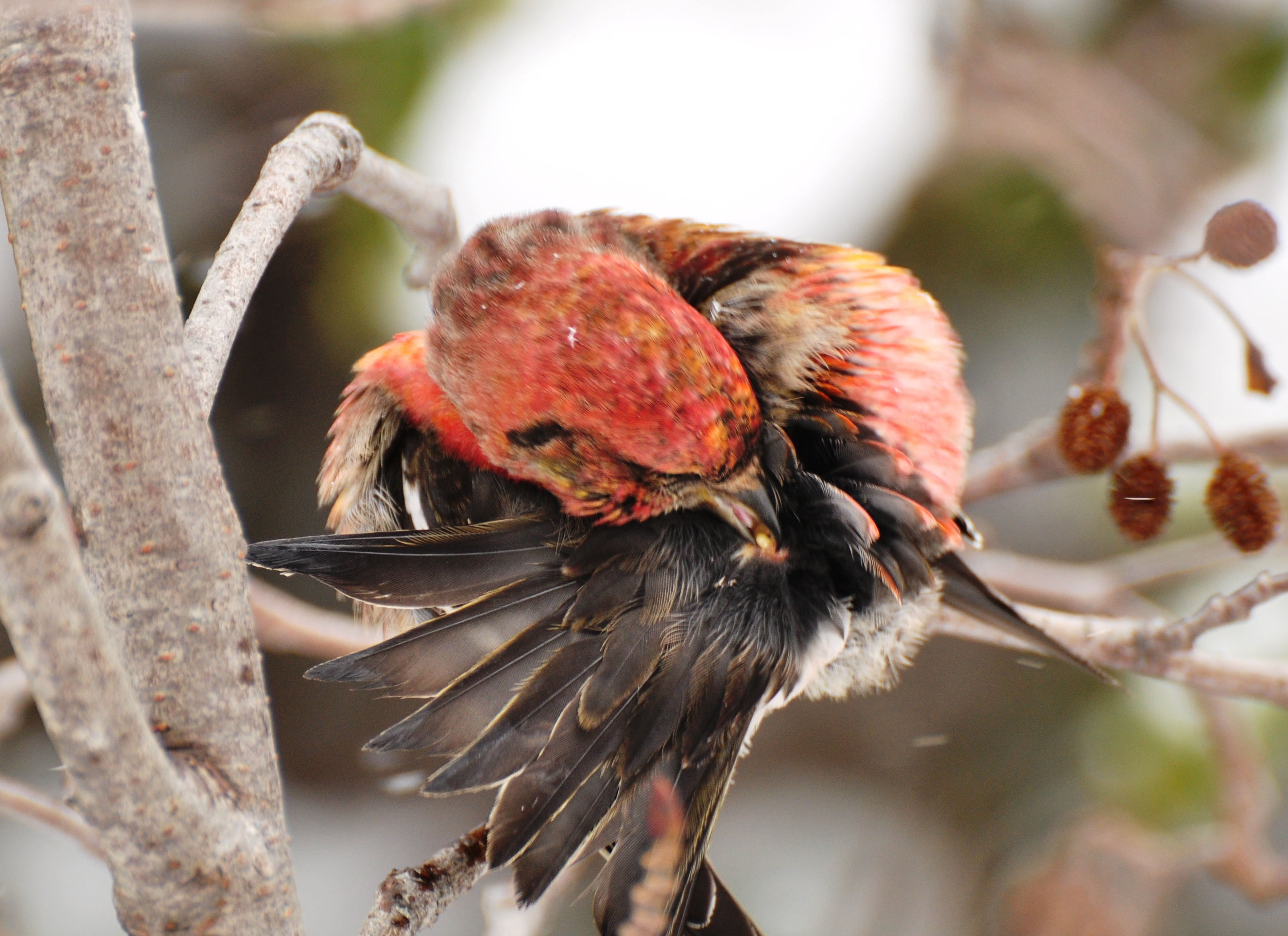 White-winged Crossbill (Loxia leucoptera) extracting preen oil from its uropygial gland. Photo taken in Gros Morne National Park, Newfoundland, Canada.